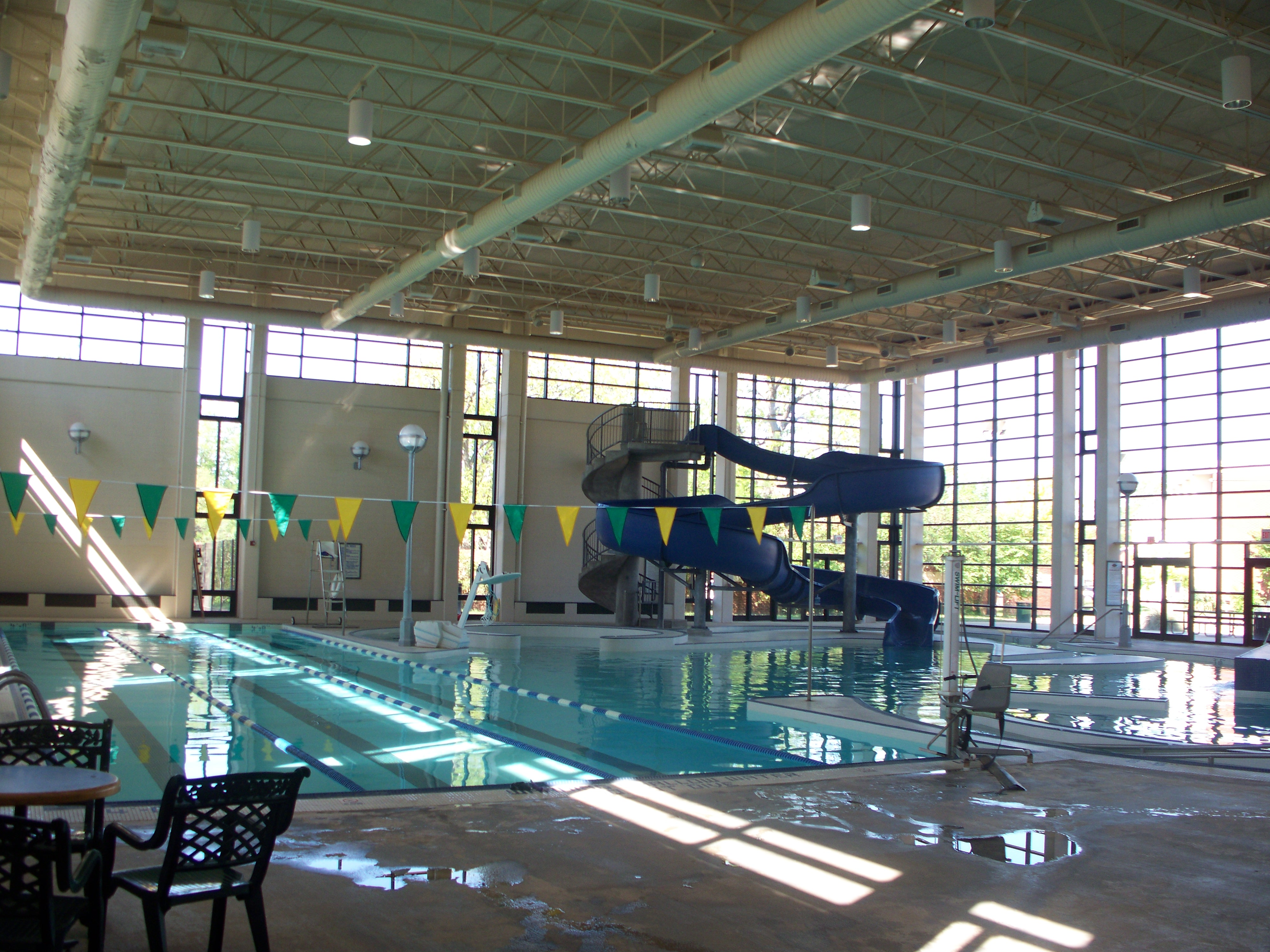 Pool in the SLC